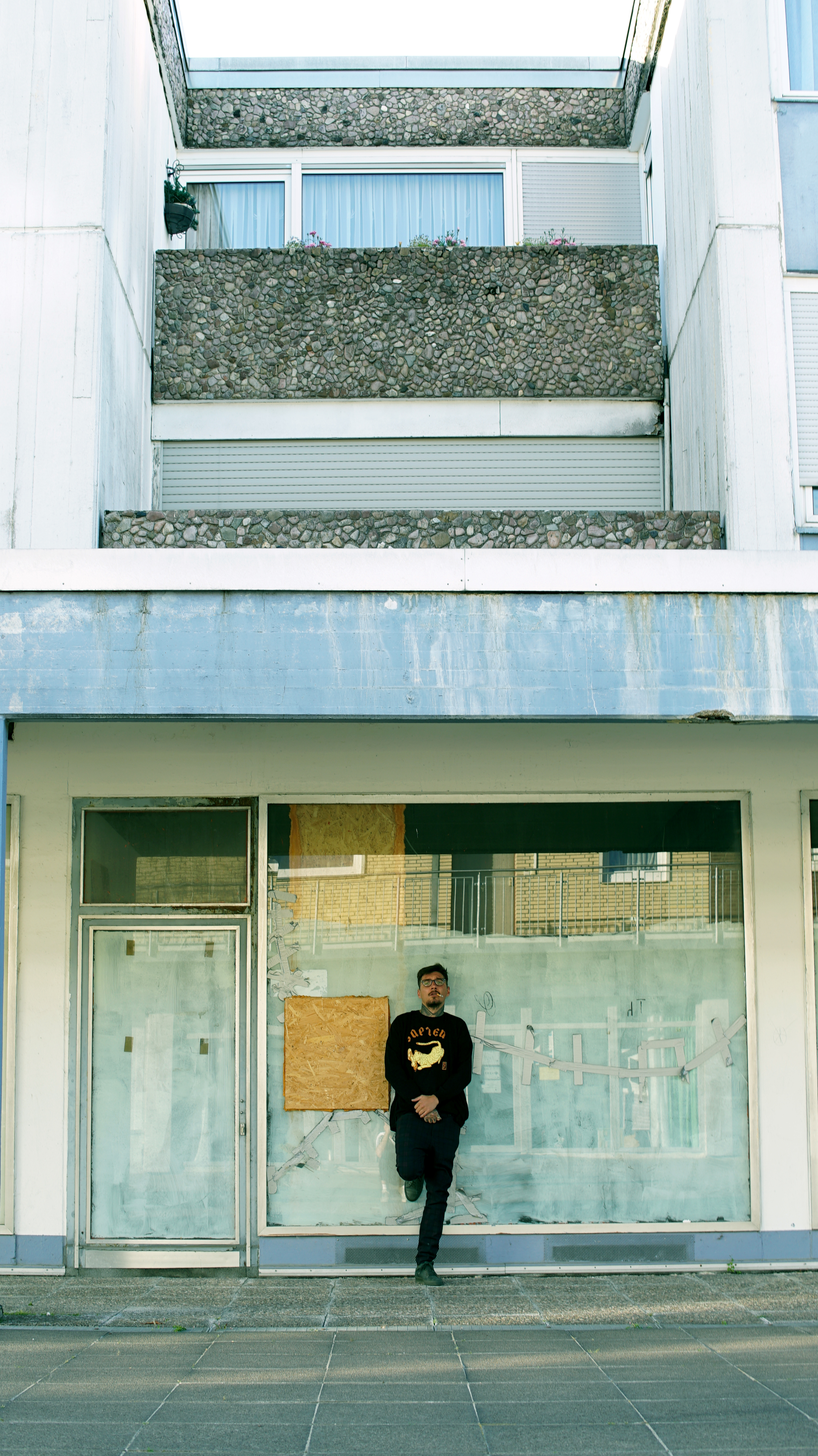 Pressefoto von Timi Hendrix